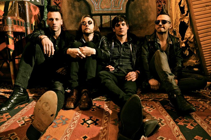 Promotional photo of Jonas Sees In Color (2015)